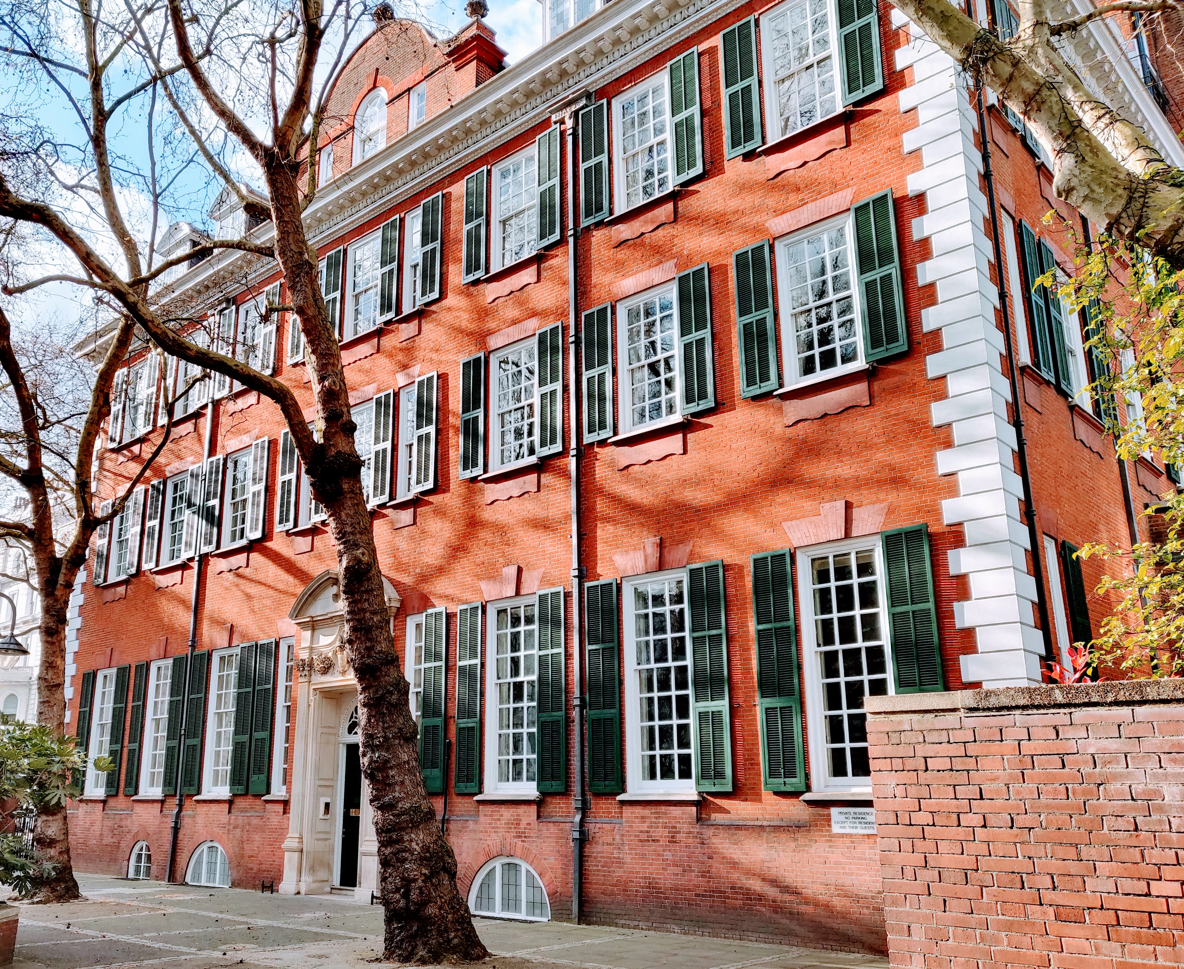 170 Queen's Gate is the ex officio home of the President of Imperial College London. The main entrance situated on Imperial College Road, it sits outside of Falmouth Gate. It is one of the remaining historic buildings on campus, as most were pulled down during reconstruction of the college in the latter half of the 20th century.